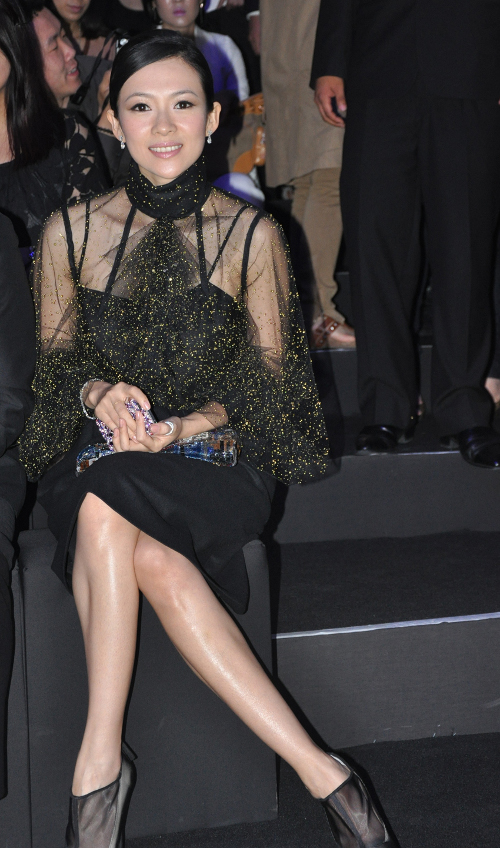 Picture of Zhang Ziyi taken at a fashion show.